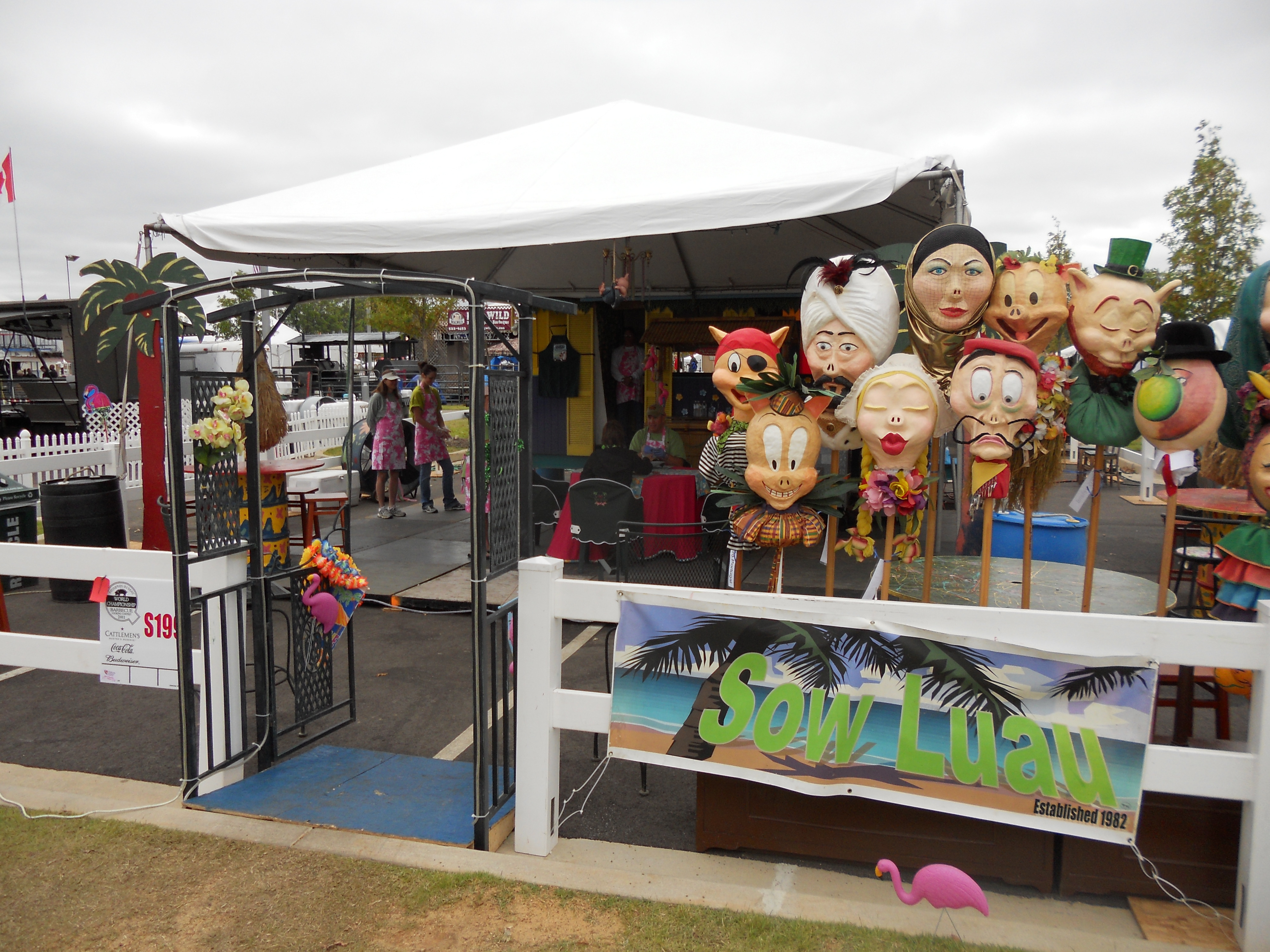 Judging at World Championship Barbecue Contest at Memphis in May at the Sow Luau